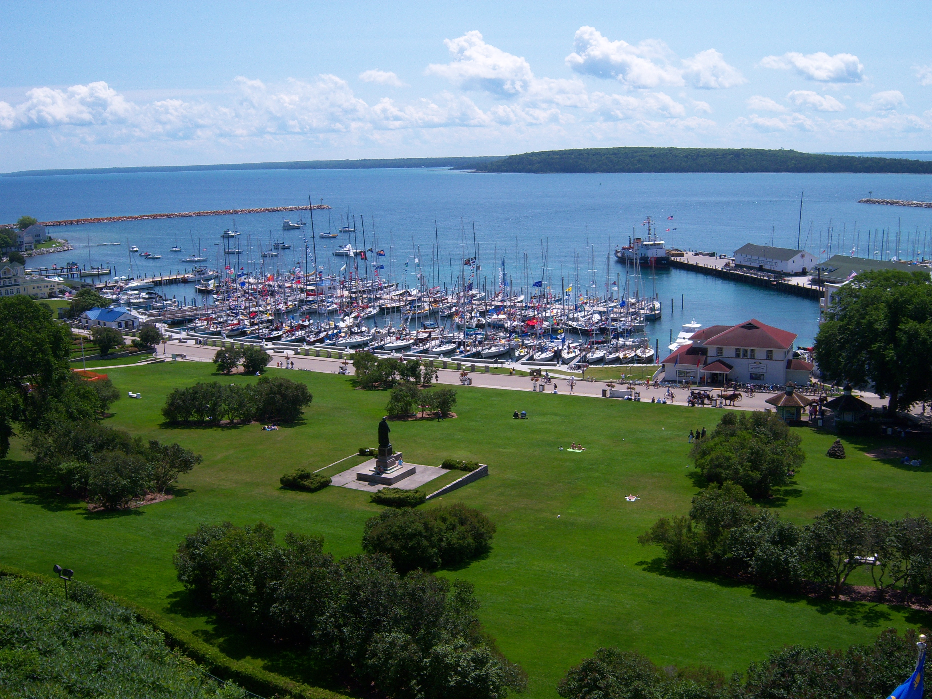 This is a picture of the boat race from chicago to mackinac island in the summer. Also includes USCG icebreaker Katmai Bay at dock and sculpture of Father Marquette